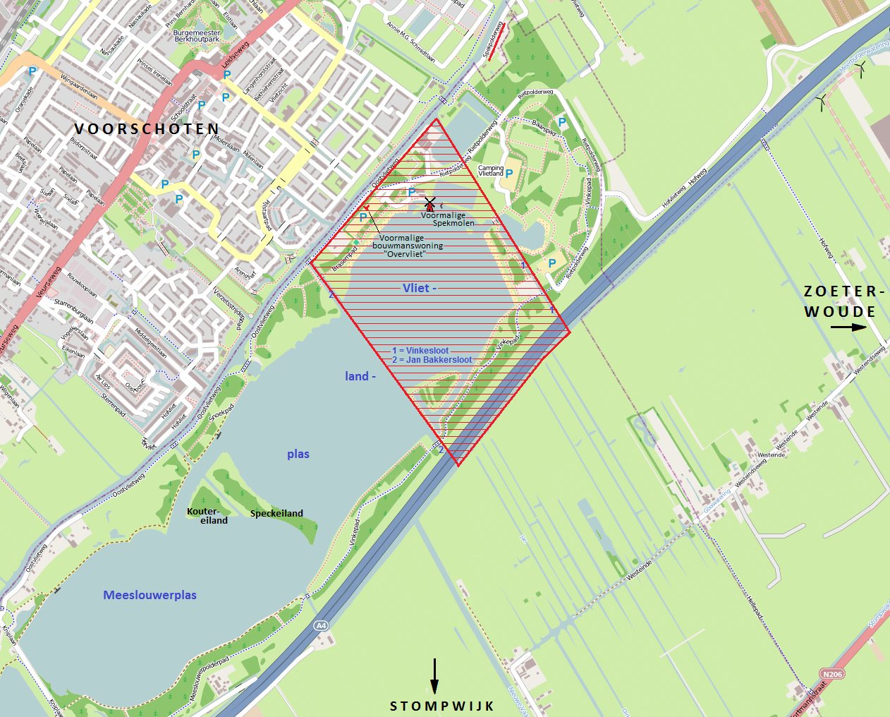 Location of the former Spek Polder (shaded red) on the river Vliet in the municipality of Leidschendam-Voorburg, opposite the town of Voorschoten (Province of South Holland, Netherlands). Situation shown as of November 2011. The polder has largely been excavated for sand and is now a deep quarry pond. Indicated are the location of the former windmill, the former farmhouse "Overvliet" and the remains of the two ditches ('sloot') that once formed the boundaries of the polder: the Jan Bakkersloot and the Vinkesloot.